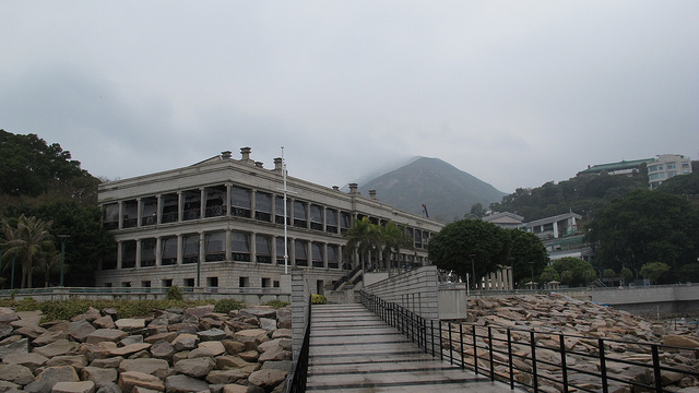 A shot of the historic Murray House building at Stanley Beach, Hong Kong.